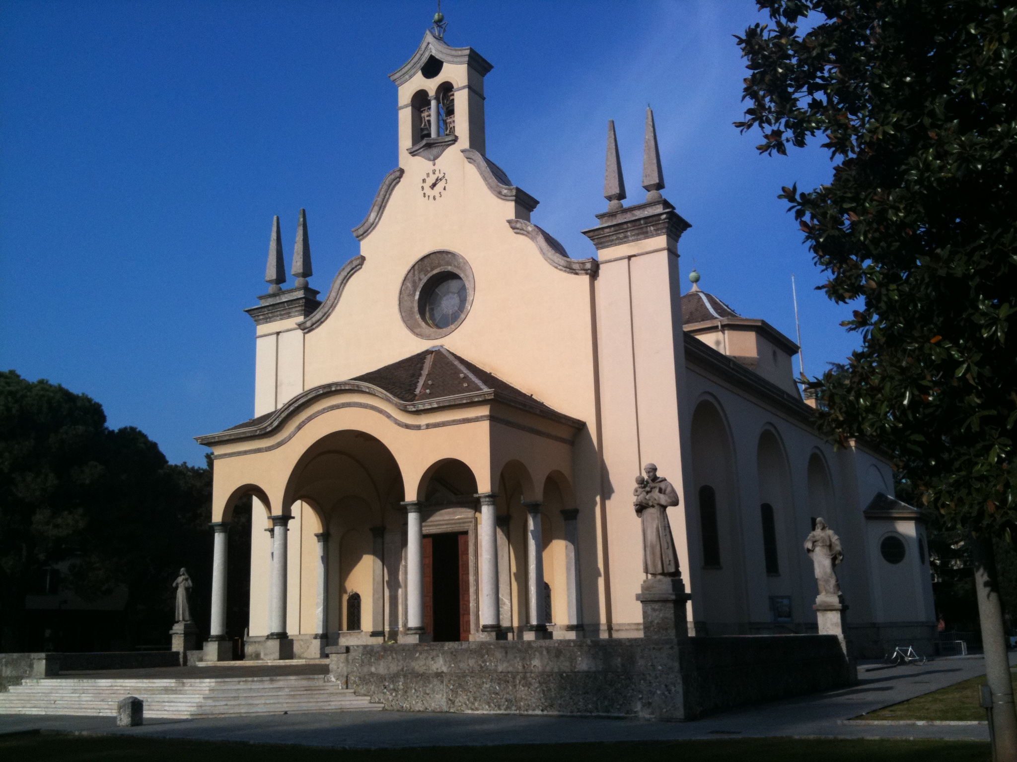 St Joseph church in Dalmine, Lombardy, Italy